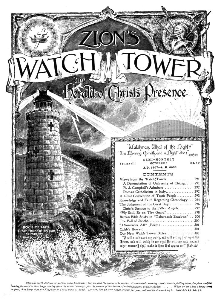 Cover of Watchtower magazine from 1907